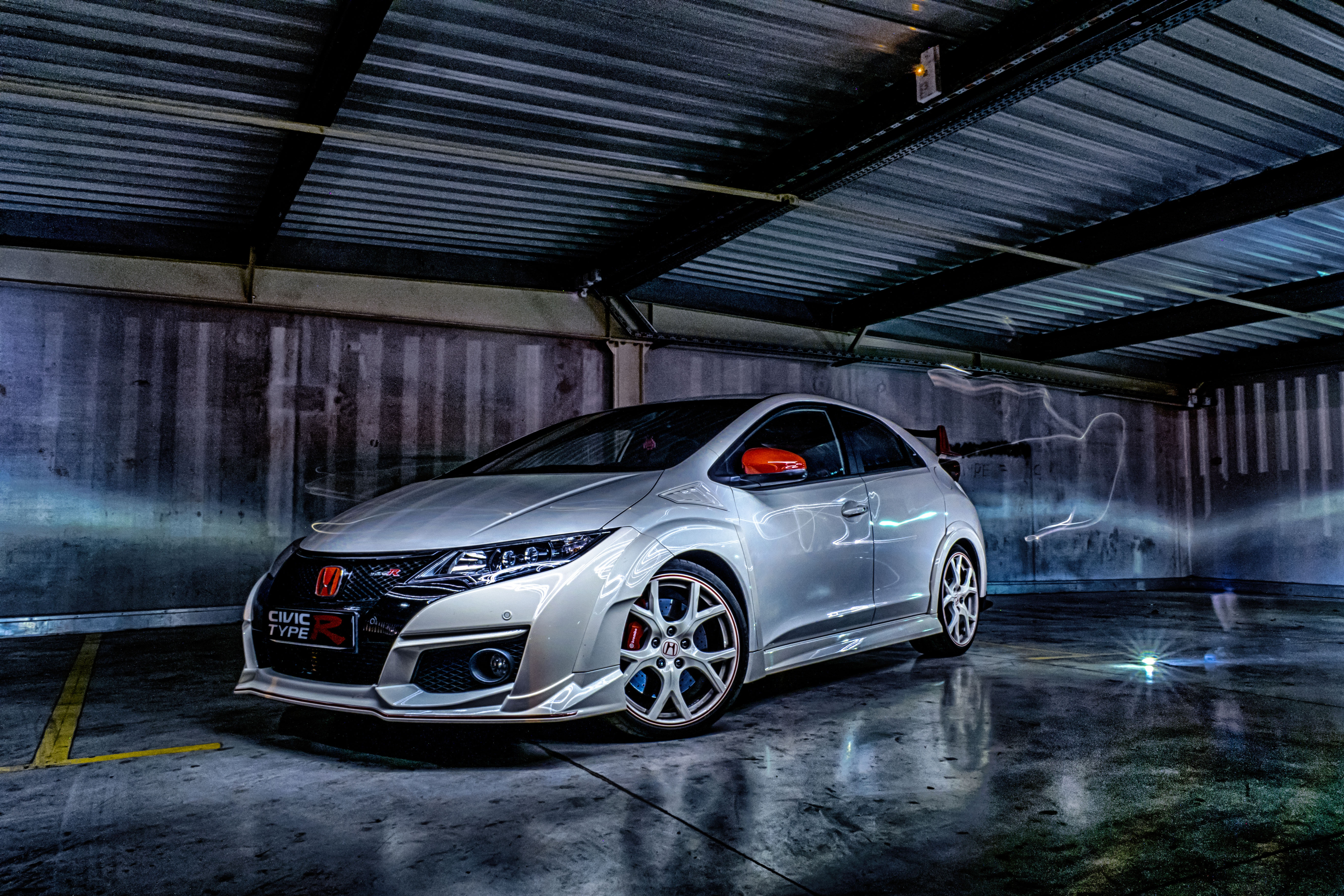 Photo of a Honda Civic Type R 2015 White Edition taken by night with long exposure in a parking